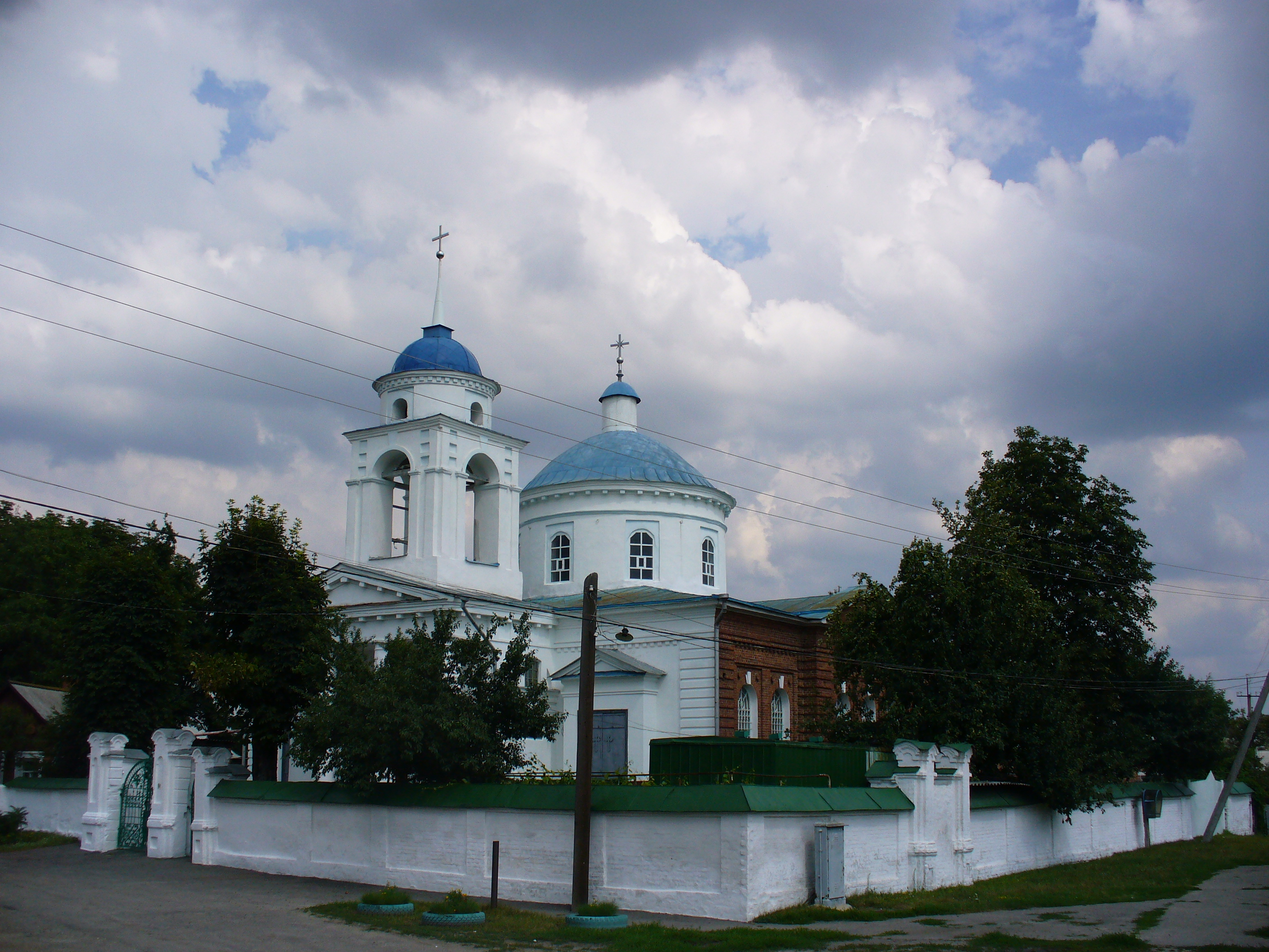 The photography of the church of the Nativity of John the Baptist in Luka, a suburb of Sumy